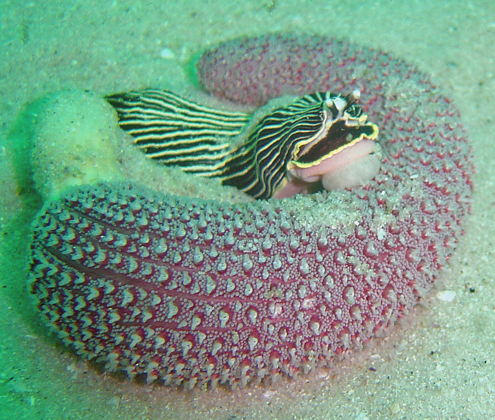 Pierre's armina feeding on purple sea pen Actinoptilum molle off Windmill beach, Simon's Town